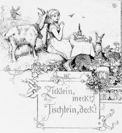 illustration of the Brothers Grimm fairy tale "One-Eye, Two-Eyes, and Three-Eyes"